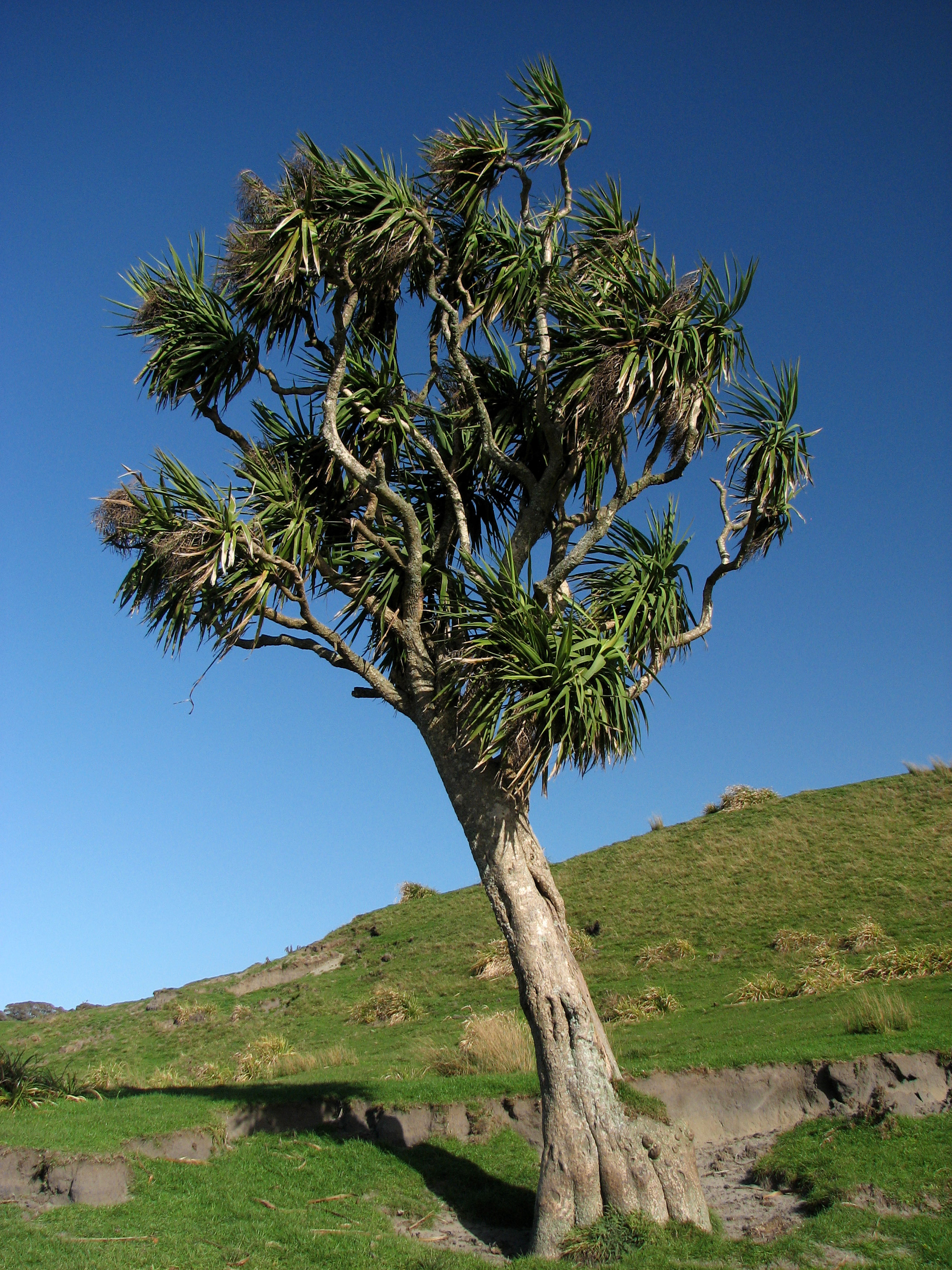 Cordyline australis, cabbage tree, on farmland, Kaihoka Lakes, Tasman, New Zealand. Standing in farm paddocks, surrounded by fields of pasture, cabbage trees are one of the most familiar sights of the New Zealand countryside. Such isolated trees are the first or second-generation survivors of former forest cover. Originally cabbage trees grew in swamp forest, along river terraces, and on damp hillsides. They have been widely planted throughout New Zealand and overseas, and many varieties have been cultivated. Cabbage trees grow to 20 metres in height and develop a massive trunk up to 1 metre in diameter. This branches after each flowering and over time develops a wide crown of long tufted leaves. Each spring it produces a large spray of sweet-smelling flowers.